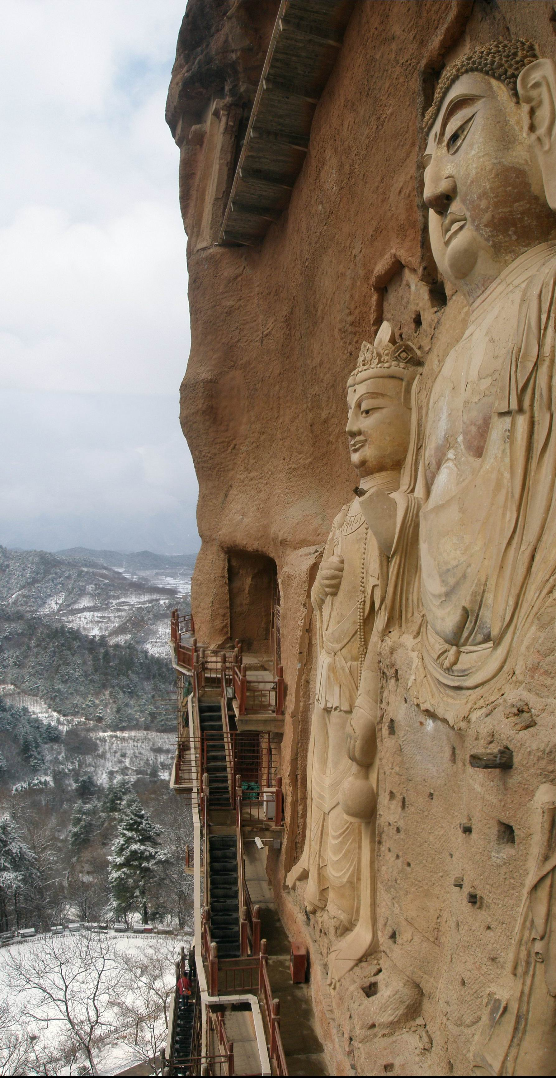 Vertical panorama of the huge Bodhisattva sculptures on Majishan.